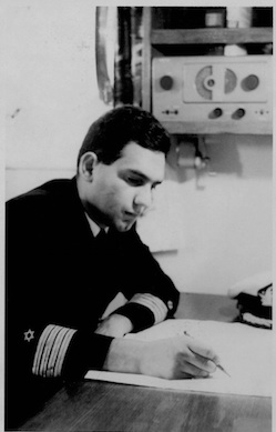 Captain Avraham Ariel, Master s/s "Tsfonit", 1960